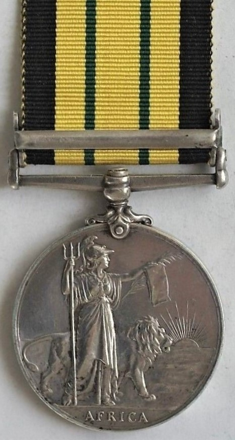 Reverse of British campaign medal awarded for minor campaigns Africa, 1900-56